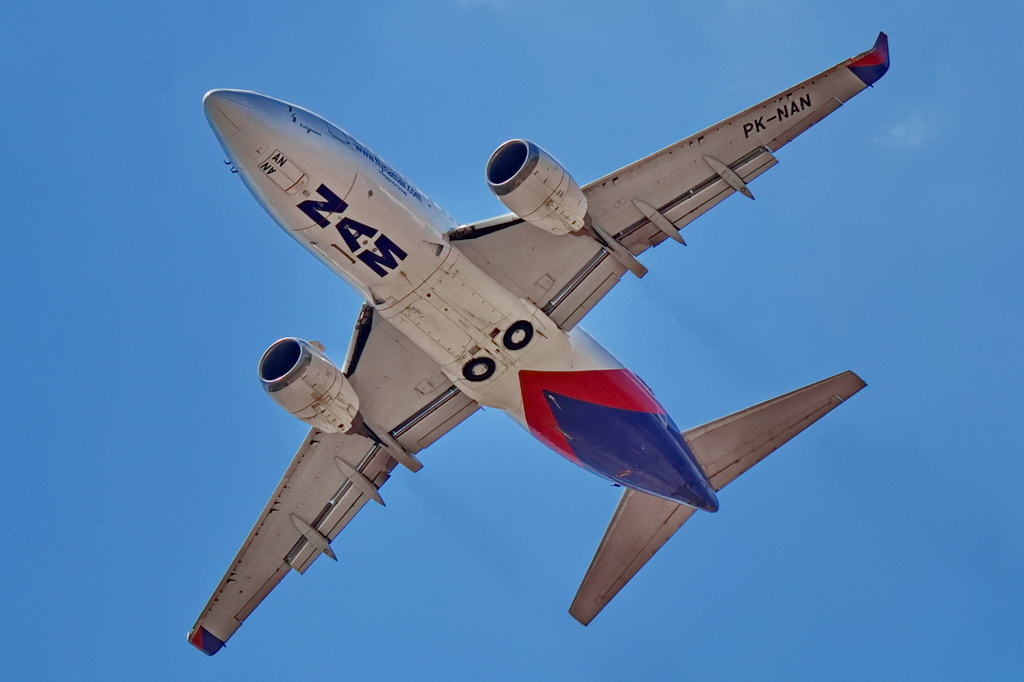 Heading to Maumere (MOF / WATC) in Flores Island as IN9662. First flight on 21/07/1995. Delivered to NAM Air on 29/10/2013. Ex N24633 Continental Airlines and United Airlines. NAM Air Boeing 737-524 PK-NAN